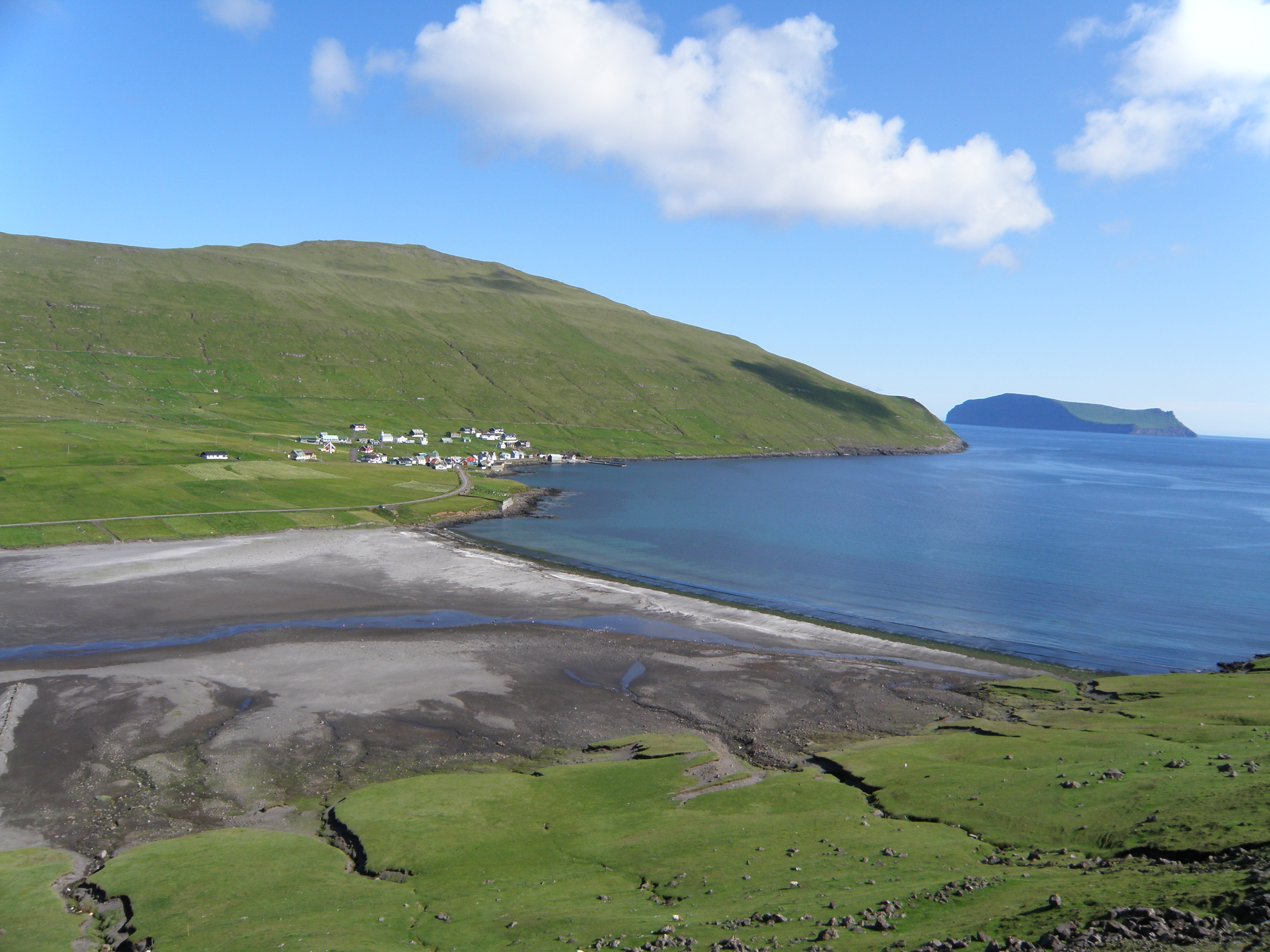 Sandvík is the northernmost village in Suðuroy, Faroe Islands. The population is around 100. The small island on this photo is Stóra Dímun.